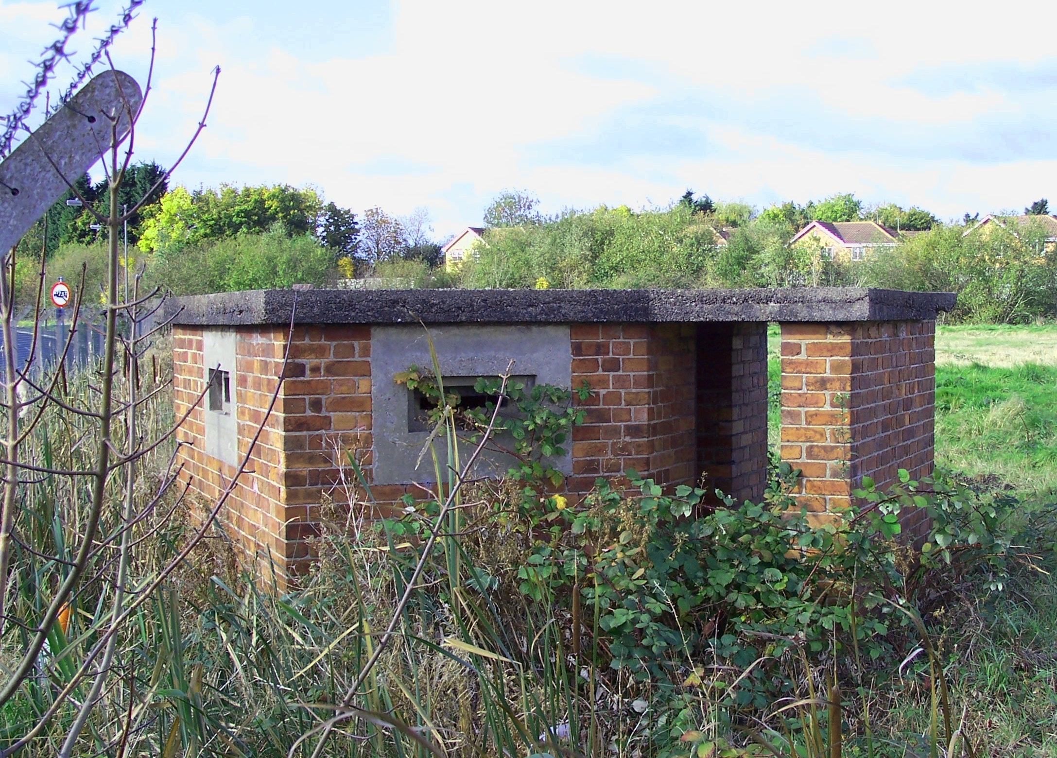 Pillbox close to Goodsmoor Bridge, Sinfin. This pillbox dates from the Second World War and was built to protect the ordnance depot situated close by.